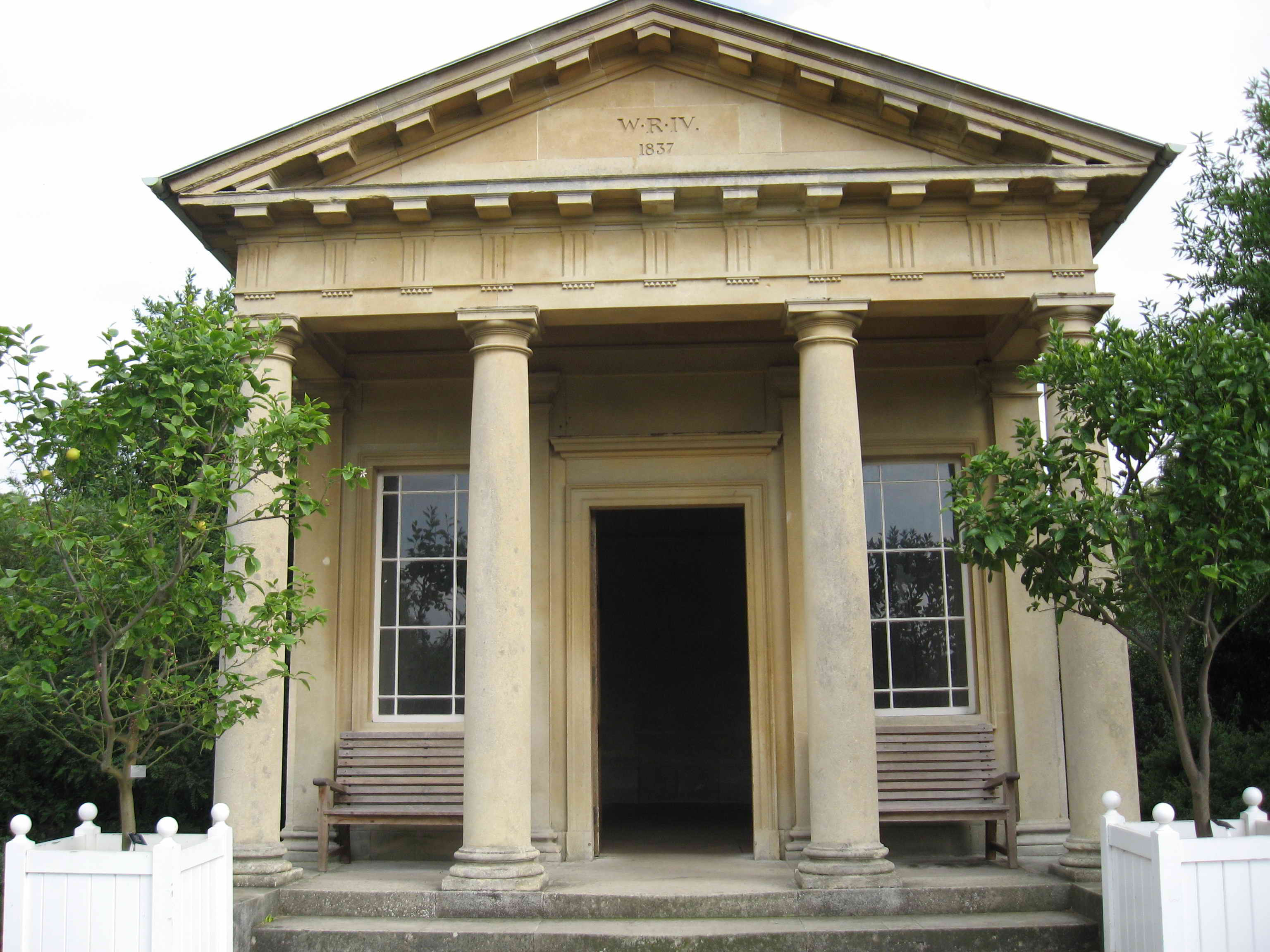 Kew William church